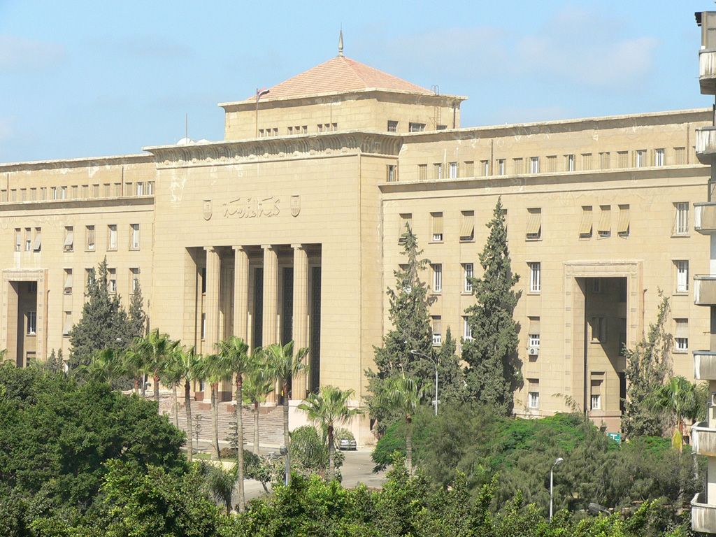 Main elevation of Faculty of Engineering in Alexandria